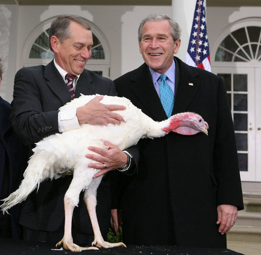 U.S. President George W. Bush is joined by Lynn Nutt of Springfield, Mo., as he poses with “Flyer” the turkey during a ceremony Wednesday, Nov. 22, 2006 in the White House Rose Garden, following the President’s pardoning of the turkey before the Thanksgiving holiday. White House photo by Paul Morse. (Details)